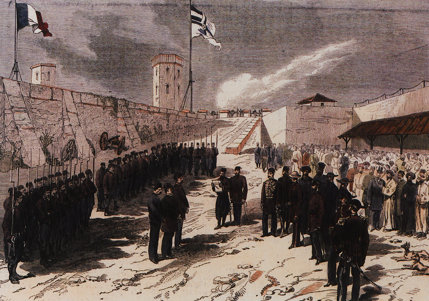 Page of the newspaper "Le Monde Illustré" with the illustartion of the public deposition of three high-ranking administrative officials of Thessaloniki on 21 August 1876, following the murder of the consuls. From Le Monde Illustré, 1876.